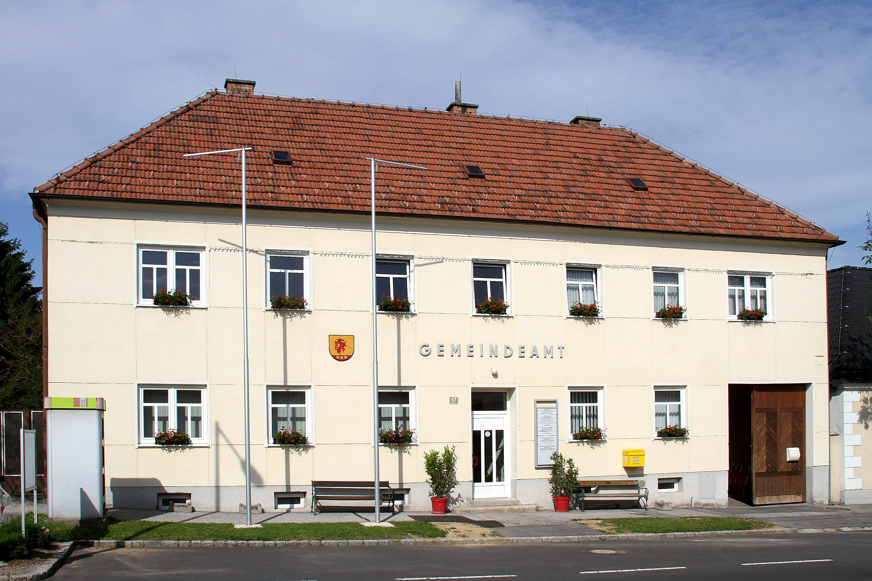 Kaisersdorf - municipal office